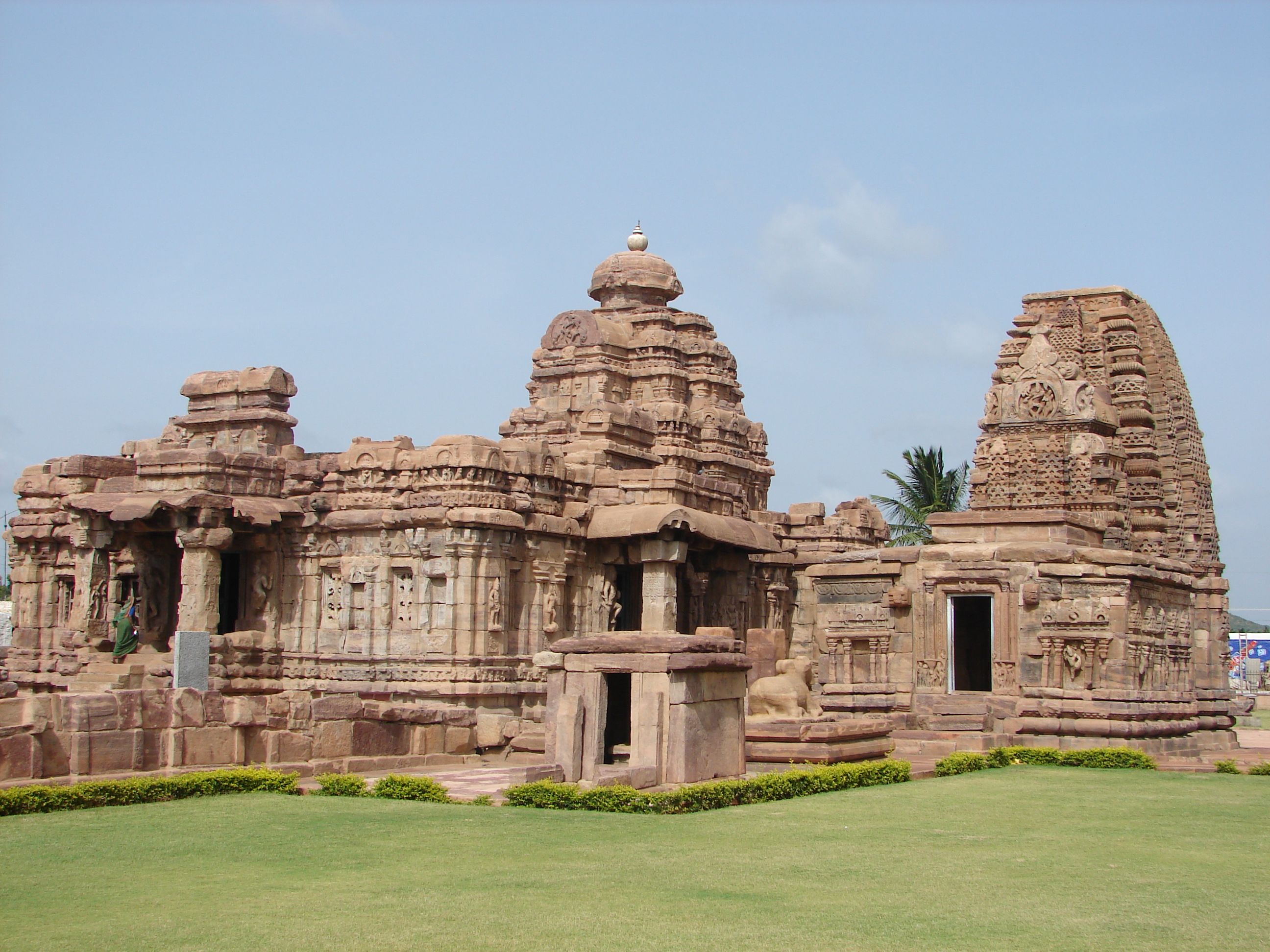 The Mallikarjuna temple on the left (originally called Trailokesvara temple) was built by queen Trailokyamahadevi (queen of Badami Chalukya King Vikramaditya II) around 740 CE. The Kasivisvanatha temple (also spelt Kashivishvanatha) is from the Rashtrakuta period. The location is Pattadakal in Karnataka, India.